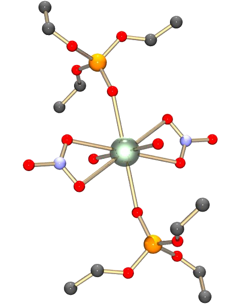 uranium complex similar to that formed in the organic phase during PUREX processing